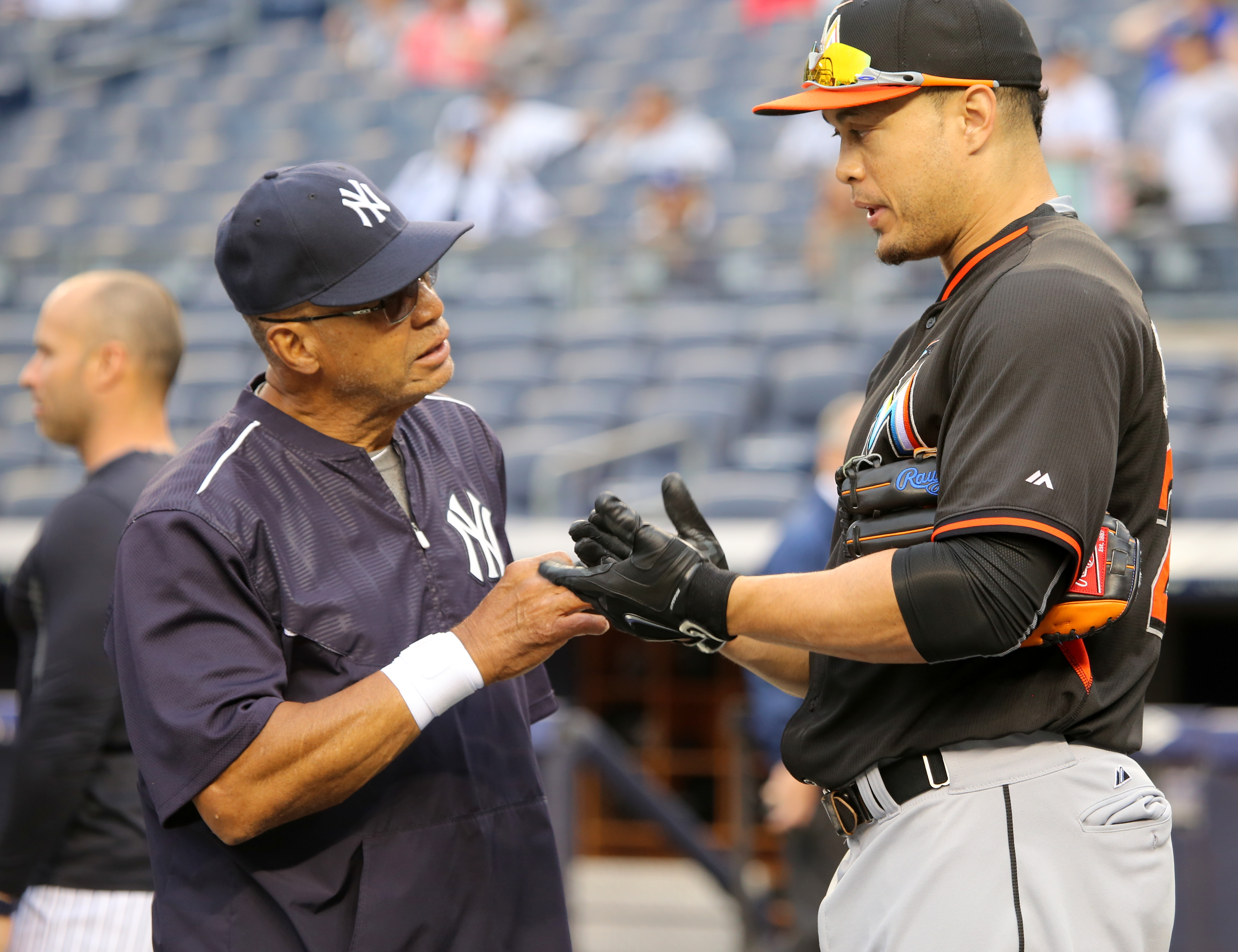 Reggie Jackson (left) and Giancarlo Stanton